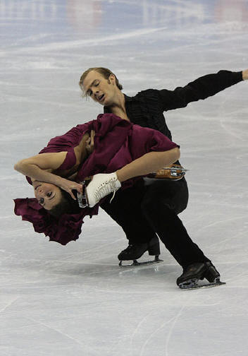 Siobhan Karam & Kevin O'Keefe perform a curve lift (Level 4) during their free dance at the 2009 Canadian Figure Skating Championships.